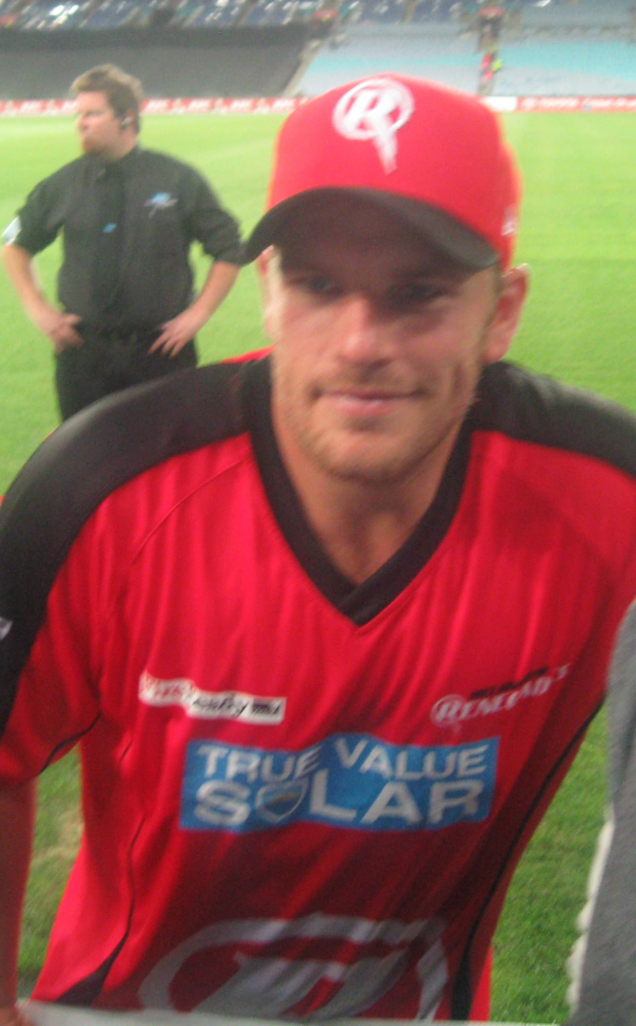 Finch after playing in the Big Bash League